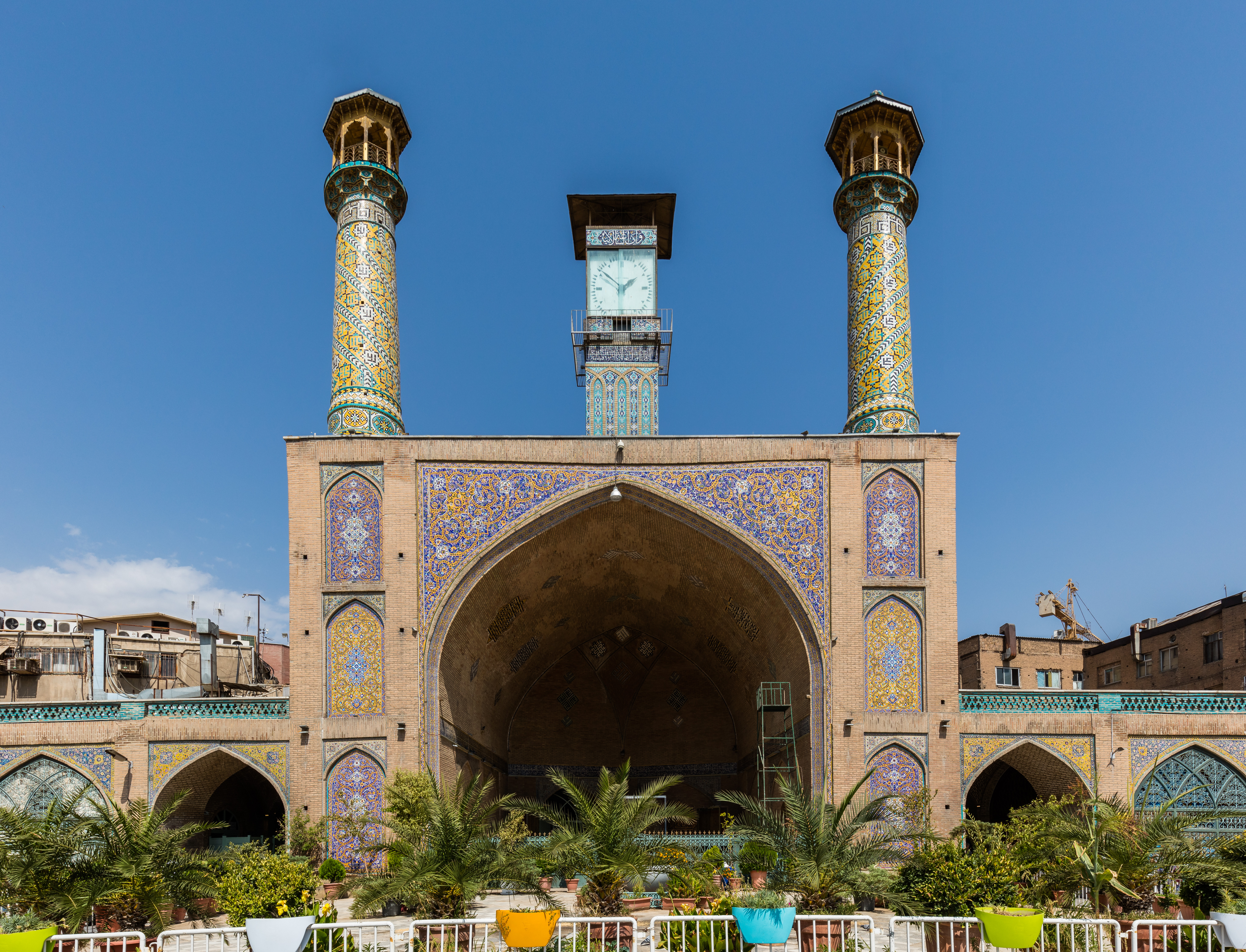 Shah mosque, Tehran, Iran